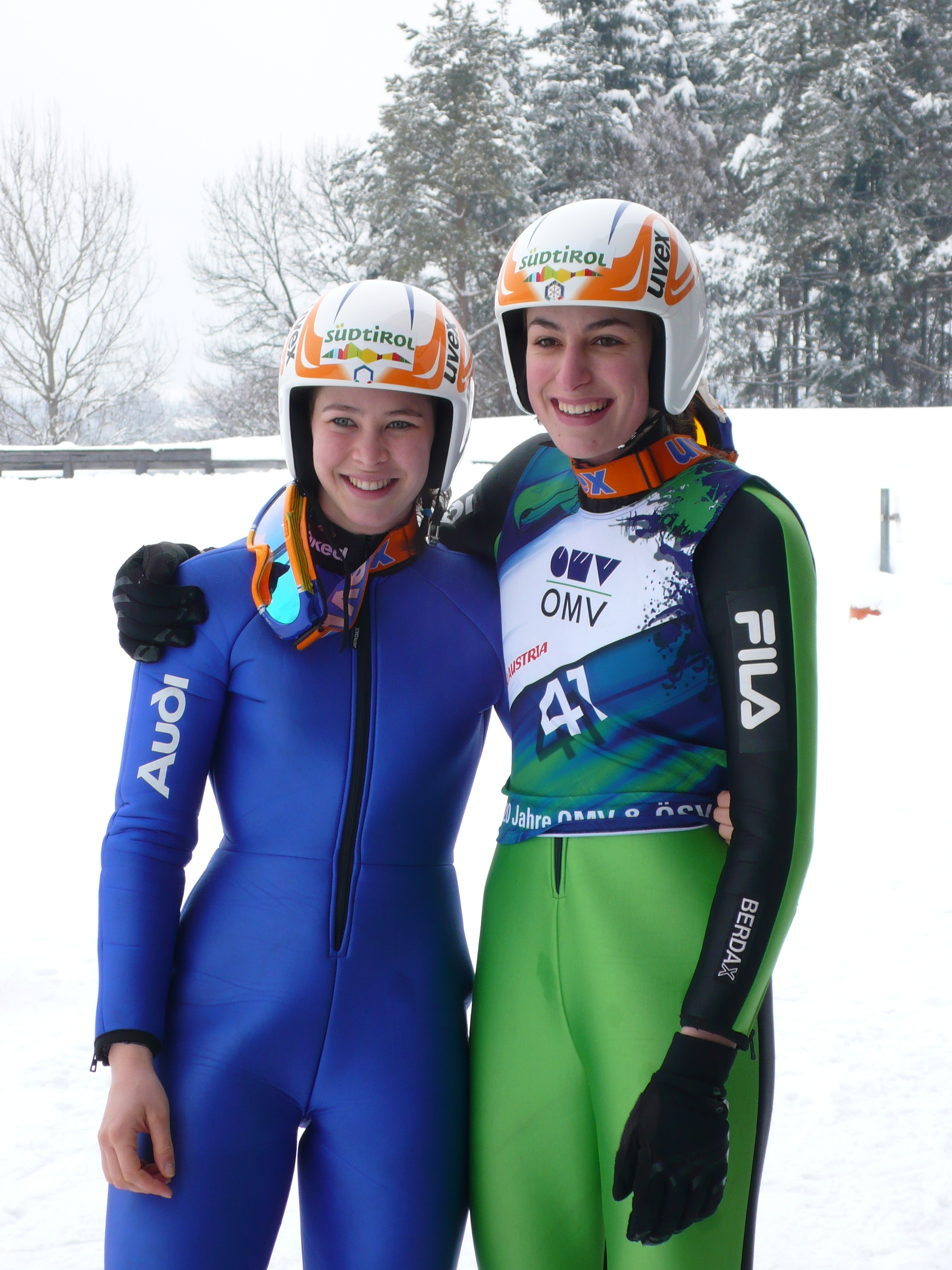 Elena Runggaldier and Evelyn Insam at the Ski jumping Continental Cup in Villach on the 2010-02-12.